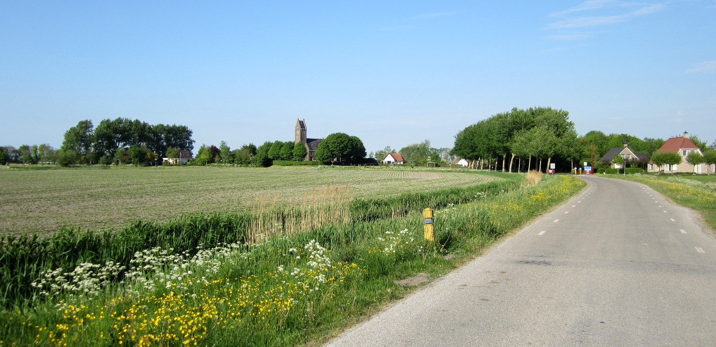 The village of Slappeterp, Friesland, the Netherlands, as viewed from the direction of Peins.